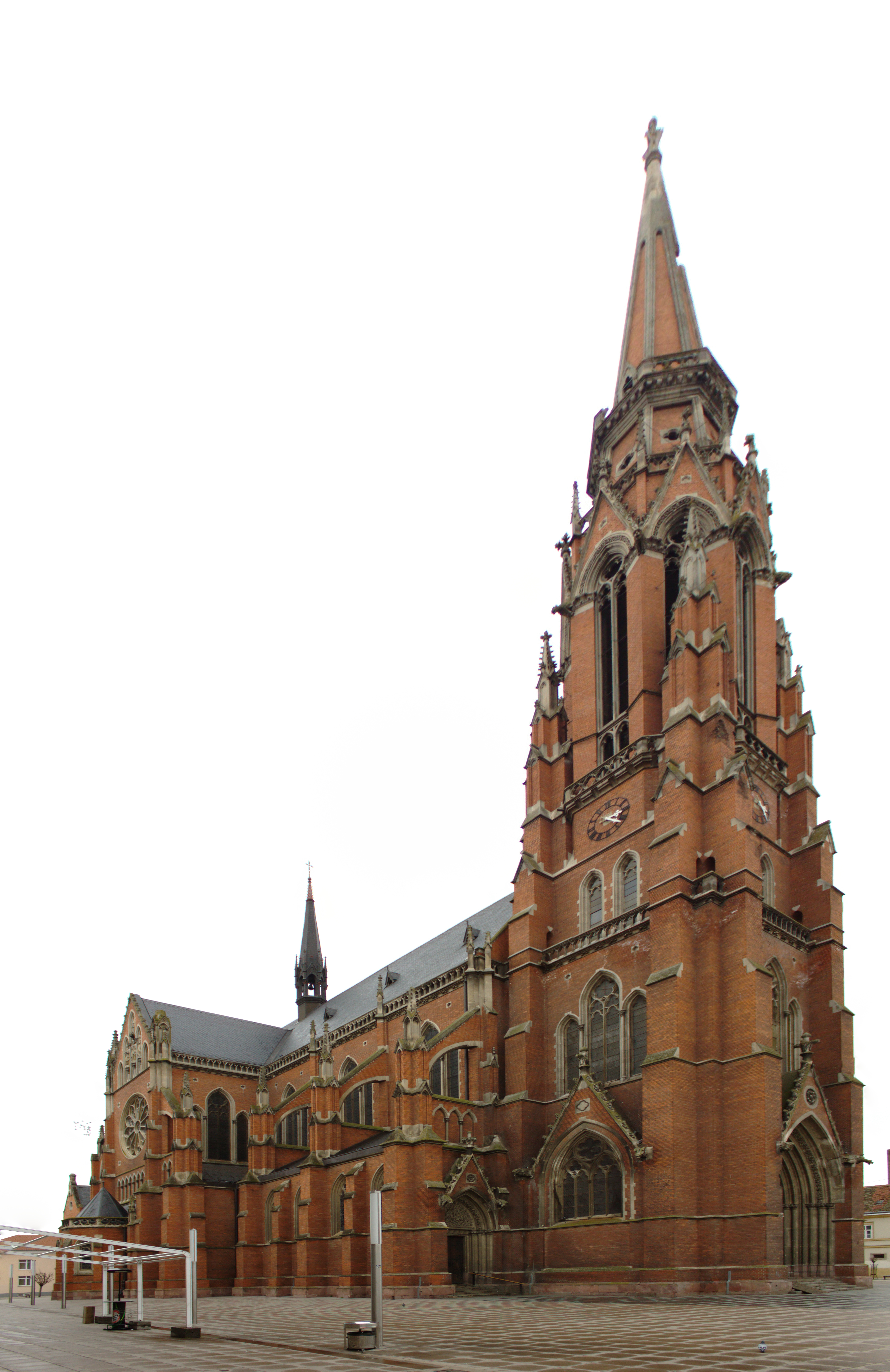 The cathedral of st. Peter and Paul in the historic centre of the town of Osijek, Croatia; composite view (panoramic)